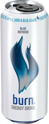 A can of Burn Blue Refresh.